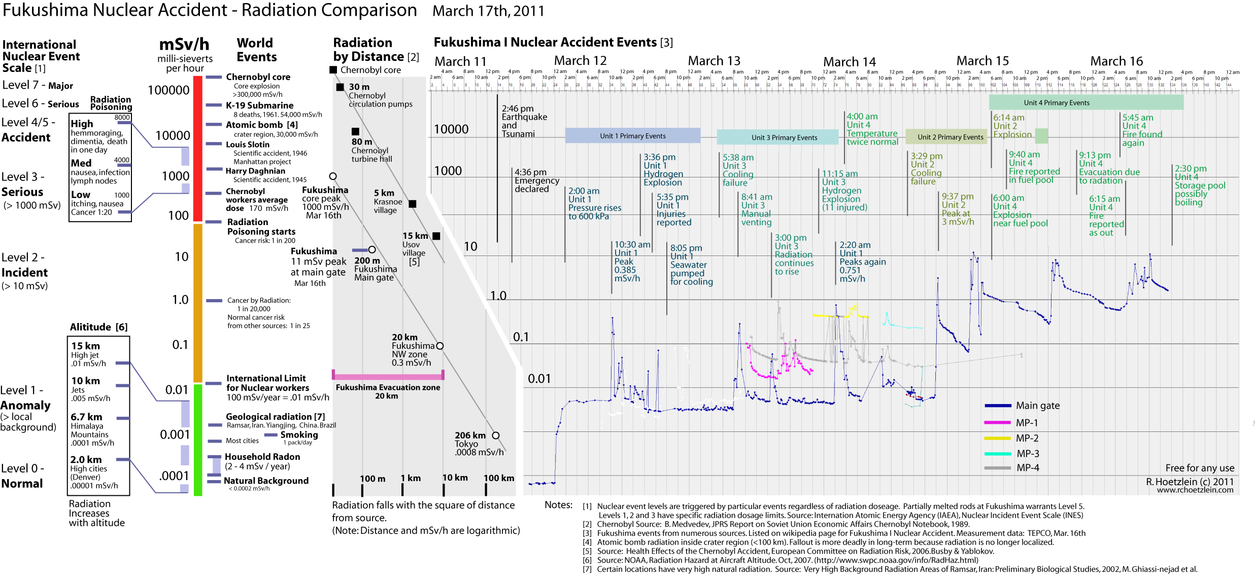 Graph of radiation release from the Fukushima I Nuclear Power Plant following the 2011 Tōhoku earthquake and tsunami, compared to historic events and standards.